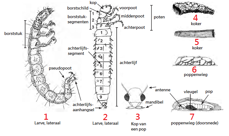 different parts of a Trichoptera-larva.